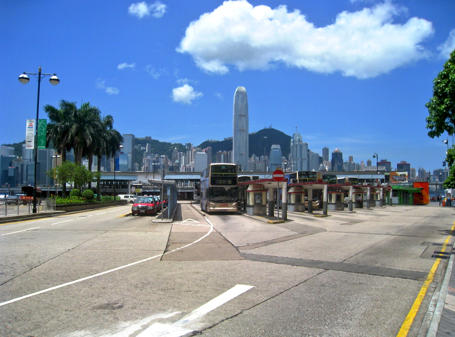 Star Ferry Public Transport Interchange